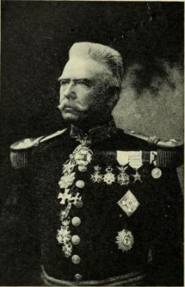 Portrait photograph of Théophile Wahis, colonial administrator for the Congo Free State and Belgian Congo.